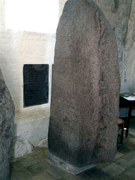 Runestone DR 239 at the church in Gørlev.